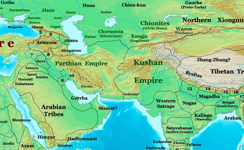 Central Asia 200 A.D.